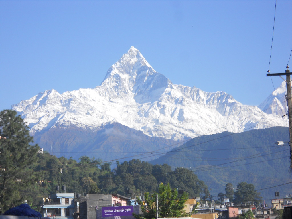 Makalu Mountain